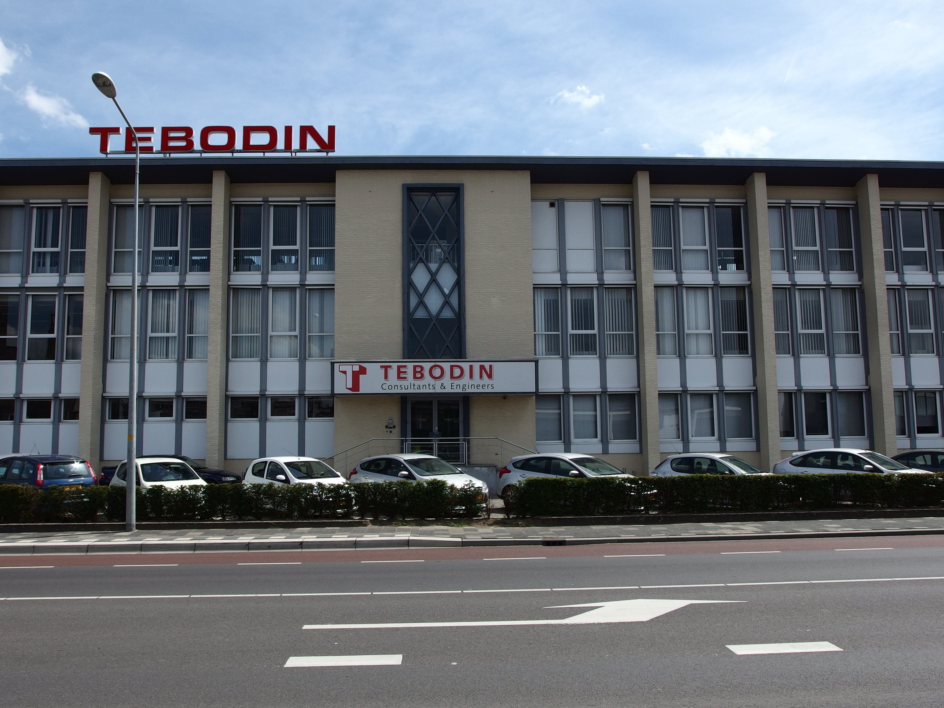 20140525 in Maastricht; buildings at Franciscus Romanusweg